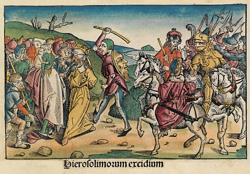 Illustration from the Nuremberg Chronicle